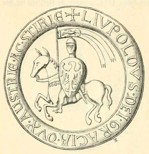 Leopold VI, Duke of Austria